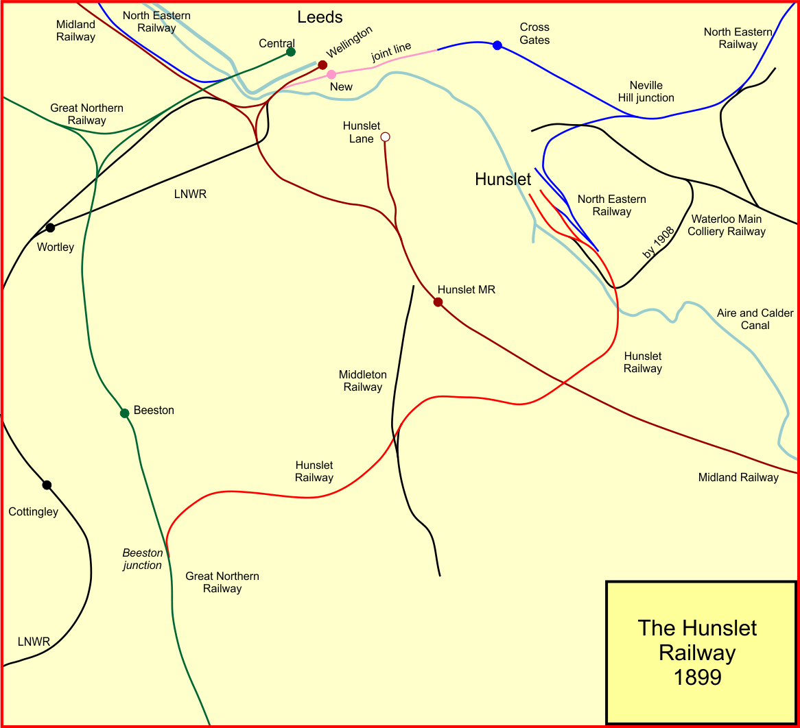 System map of the Hunslet Railway immediately south of Leeds, West Yorkshire, England in 1899